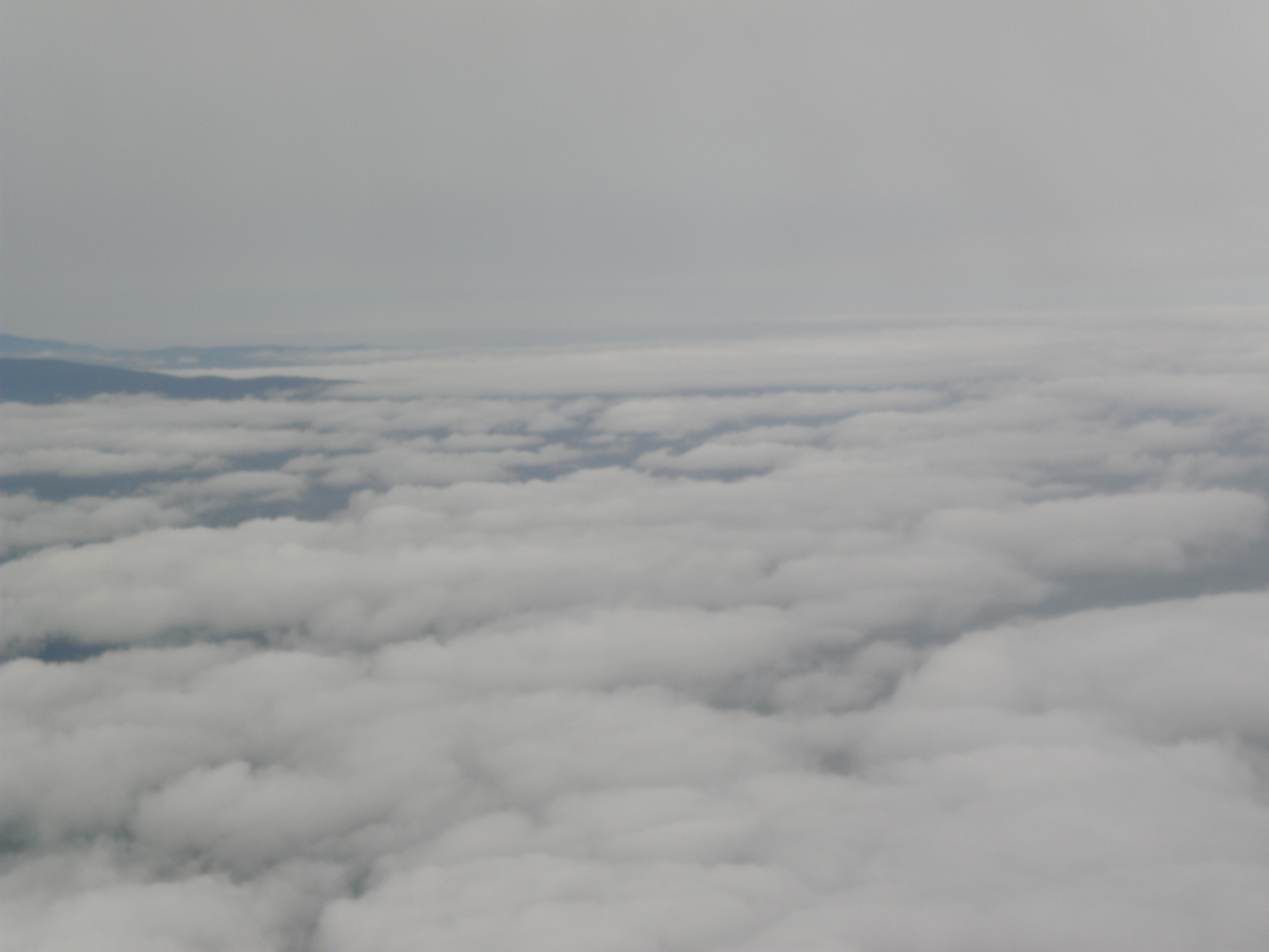 A view of the clouds from an aeroplane.